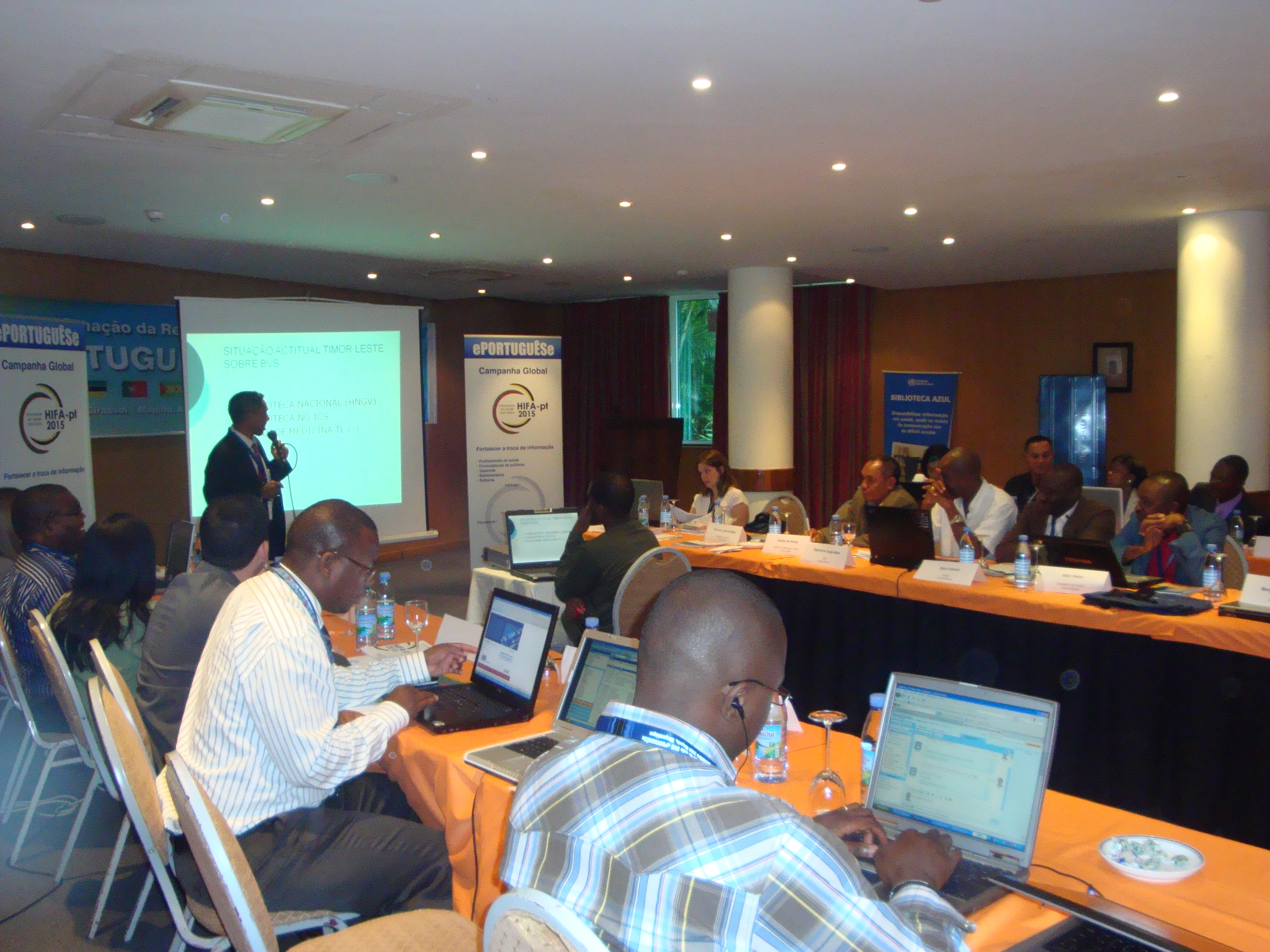 meeting of the eight portuguese speaking countries in STP